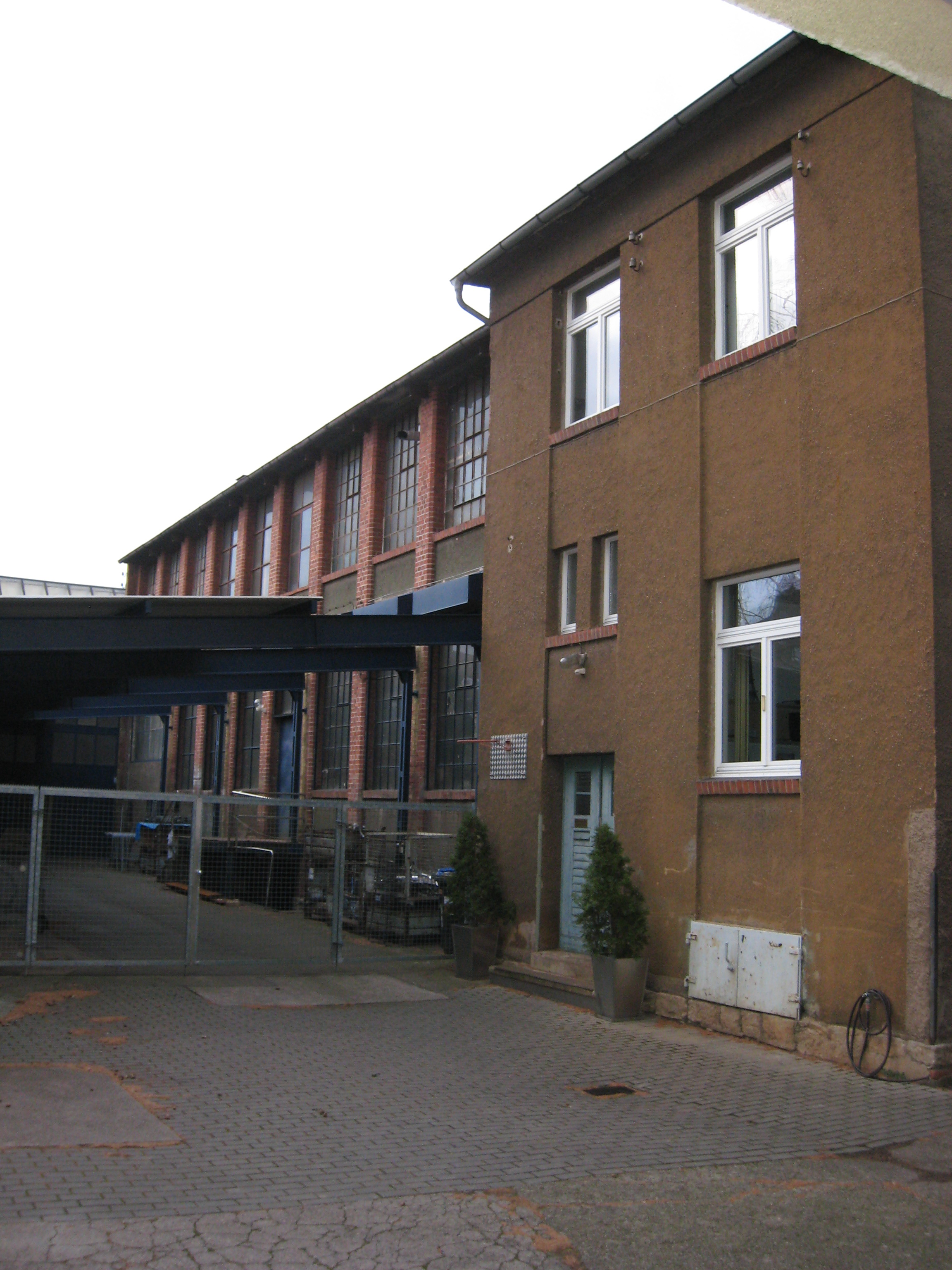 Former SA prison in Erfurt Feldstrasse 17 - 18